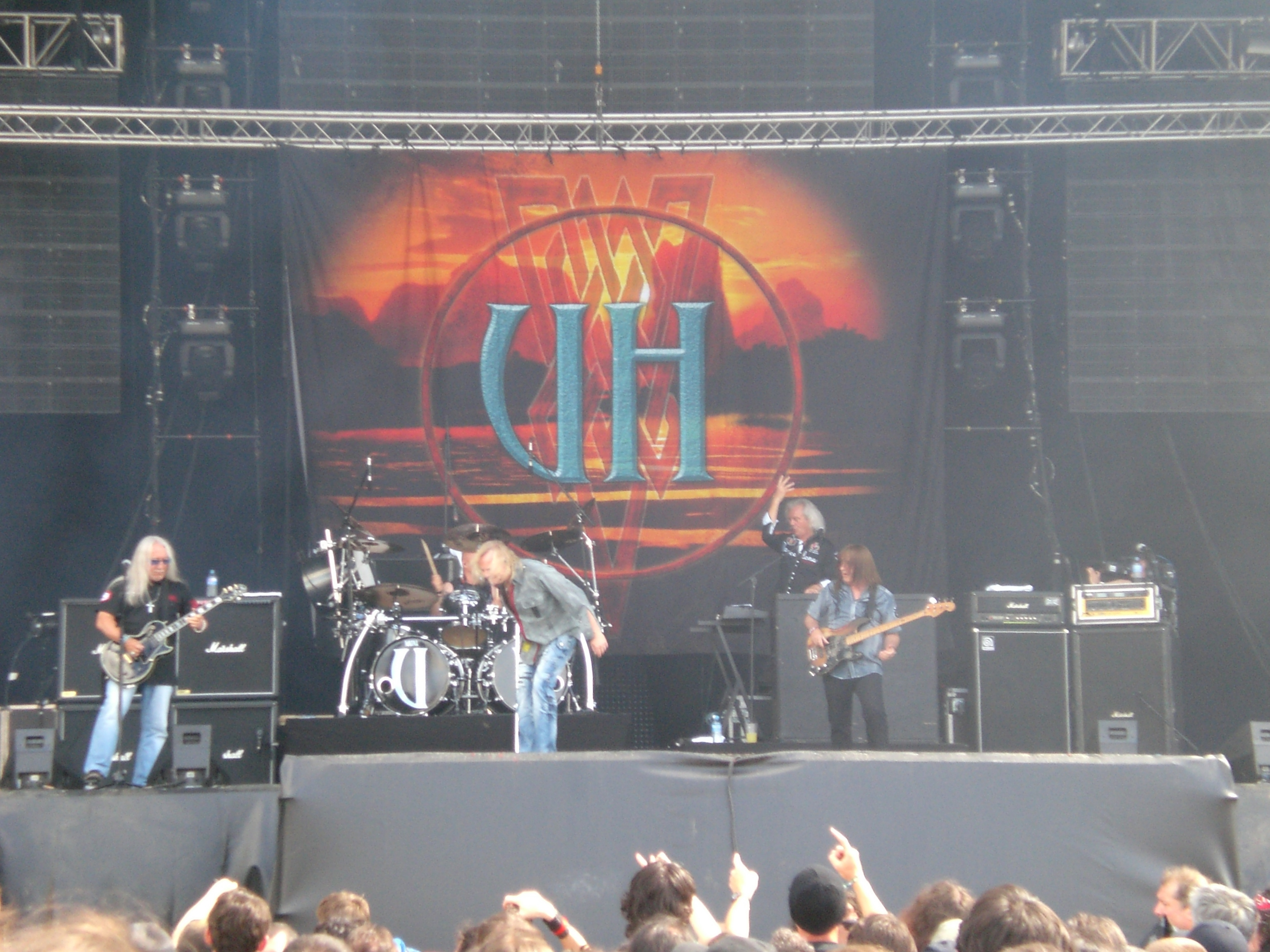 Uriah Heep (band) at 2012 Hellfest 2012.